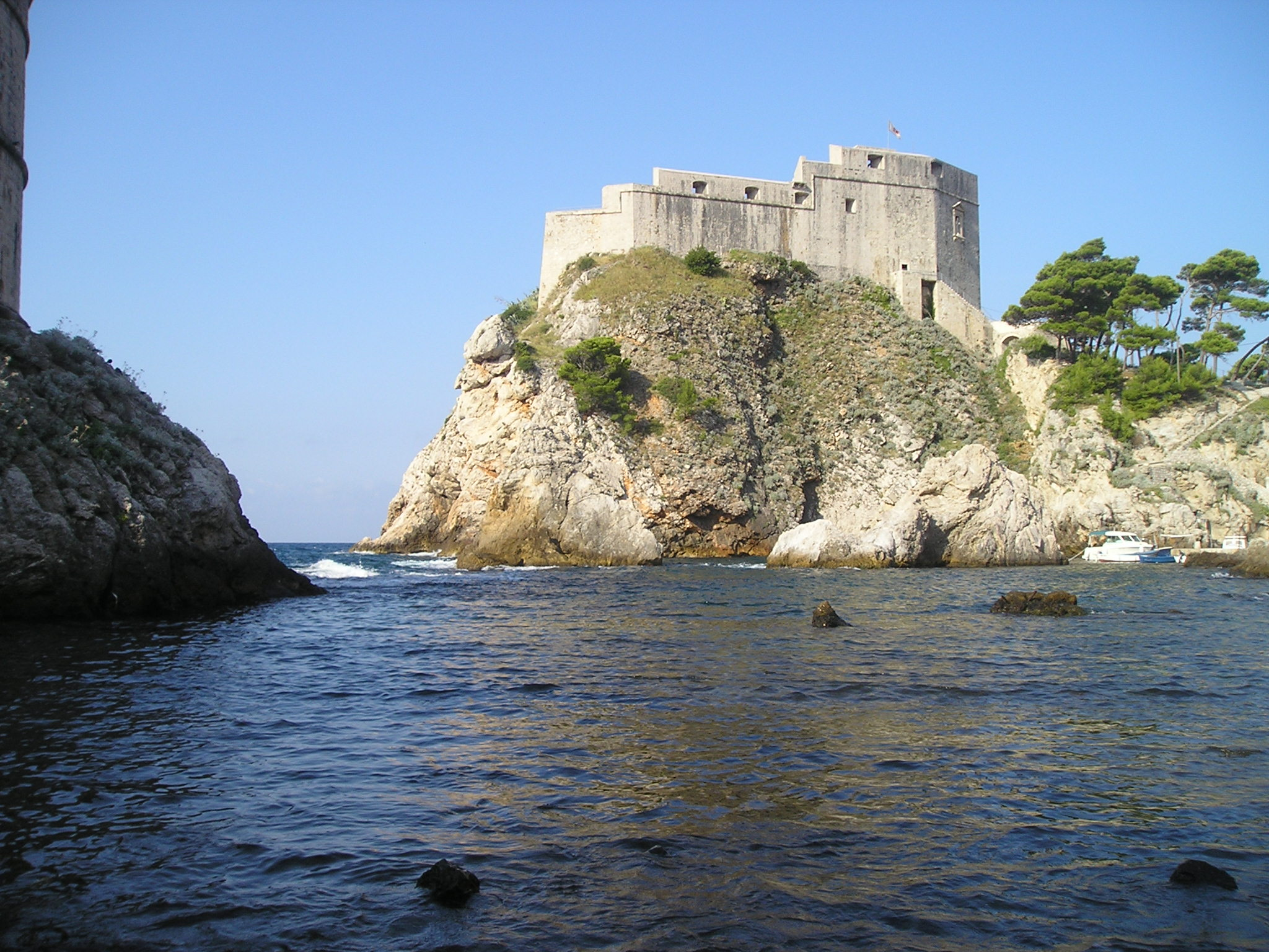 Fort Lovrijenac in Dubrovnik, Croatia from below.